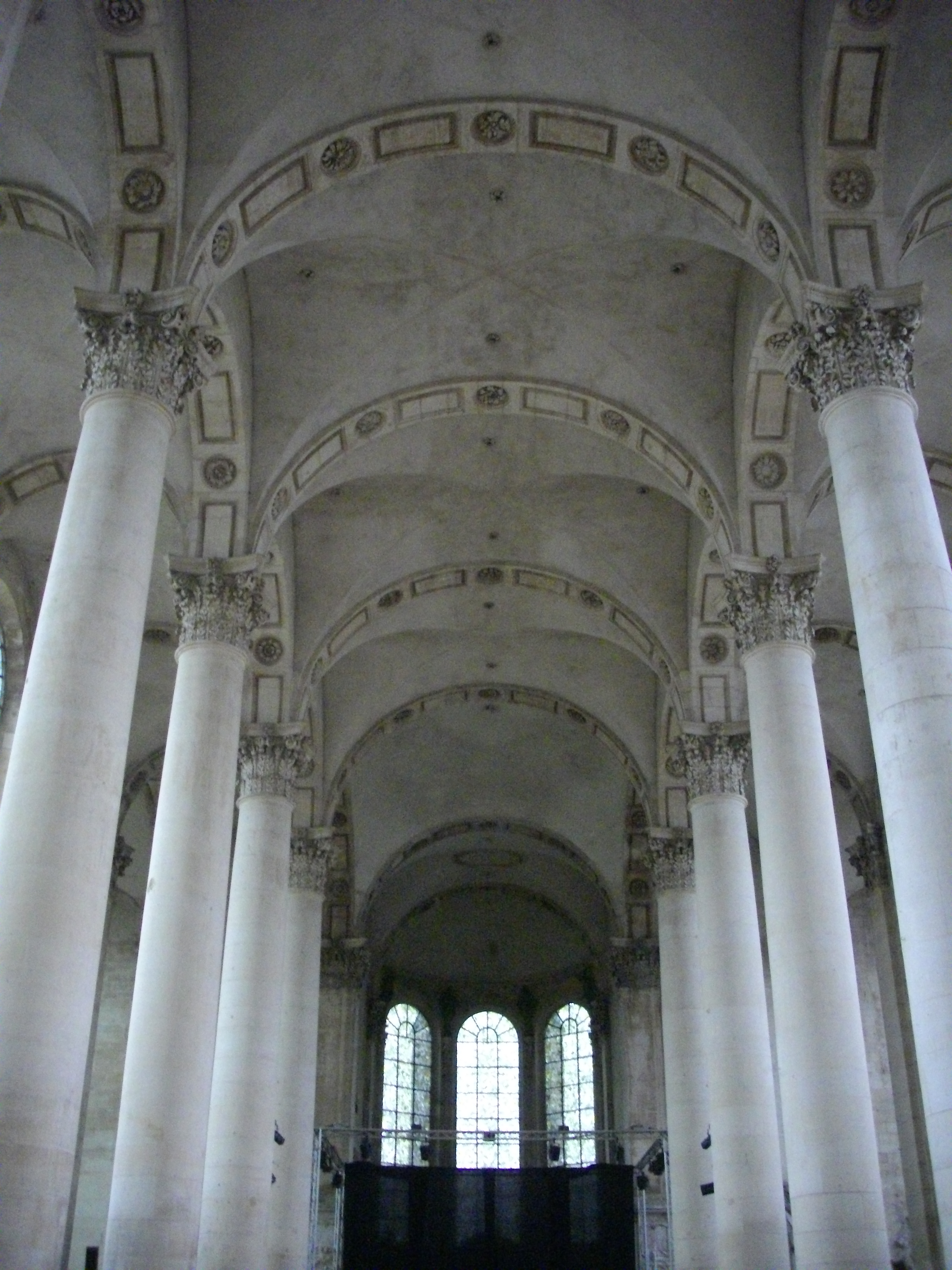 Praemonstratensian abbey of Pont-à-Mousson (Meurthe-et-Moselle, France) : interior of the church .